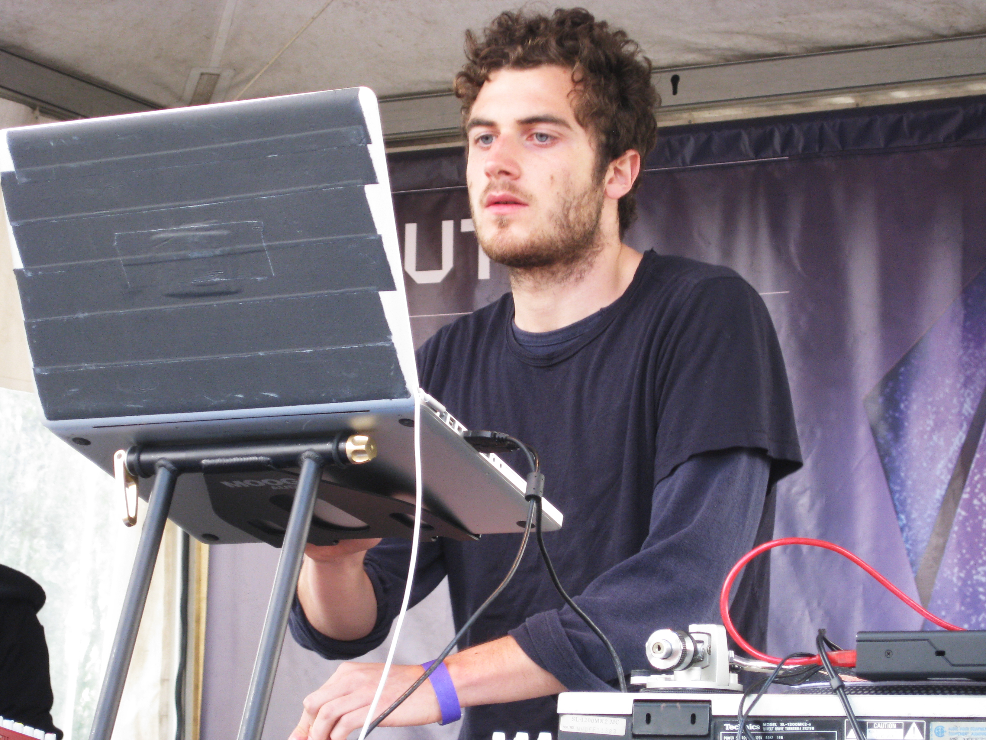 Piknic Electronik